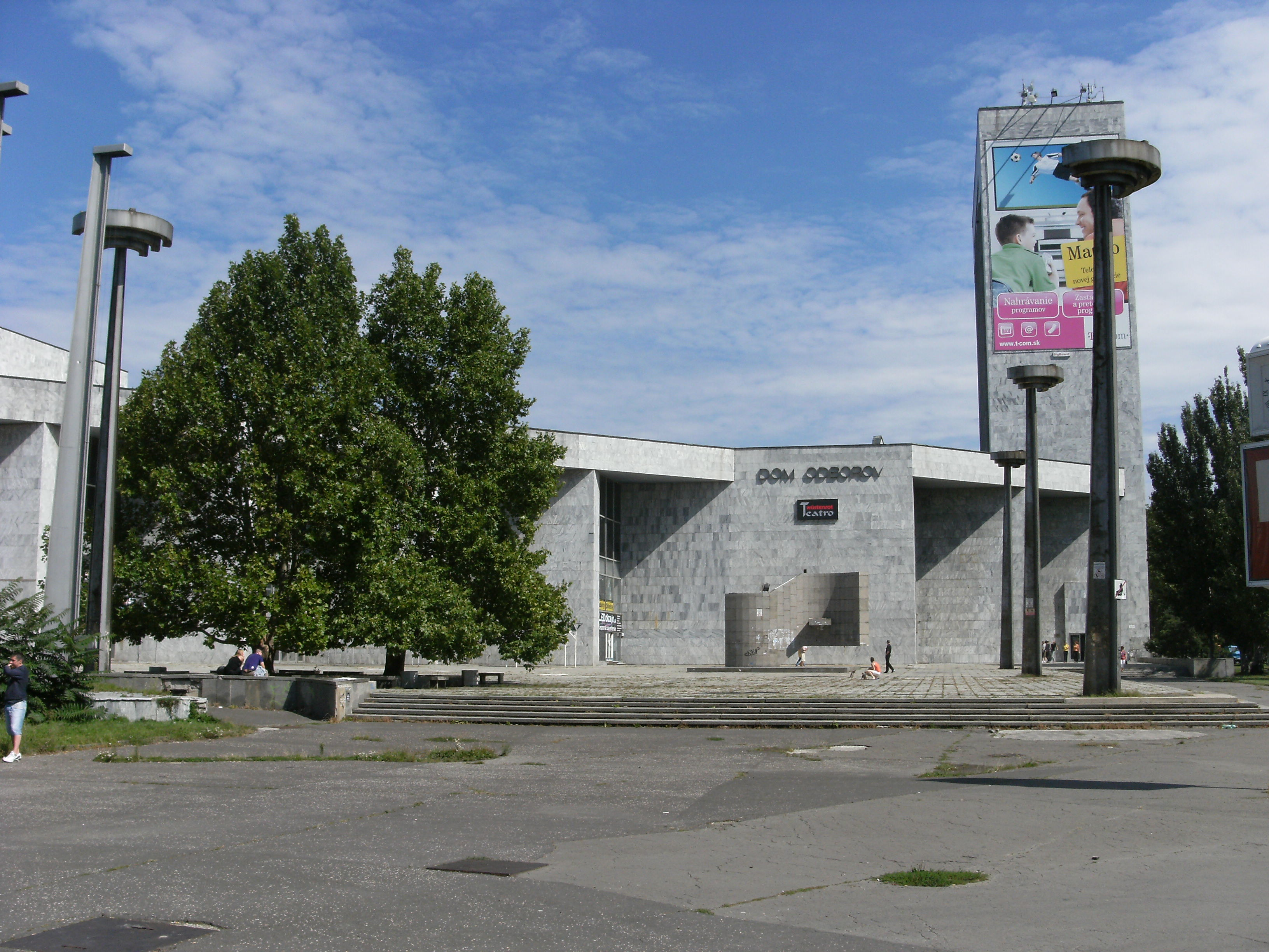 Building in Bratislava.